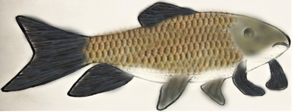 Chevalier cuivré